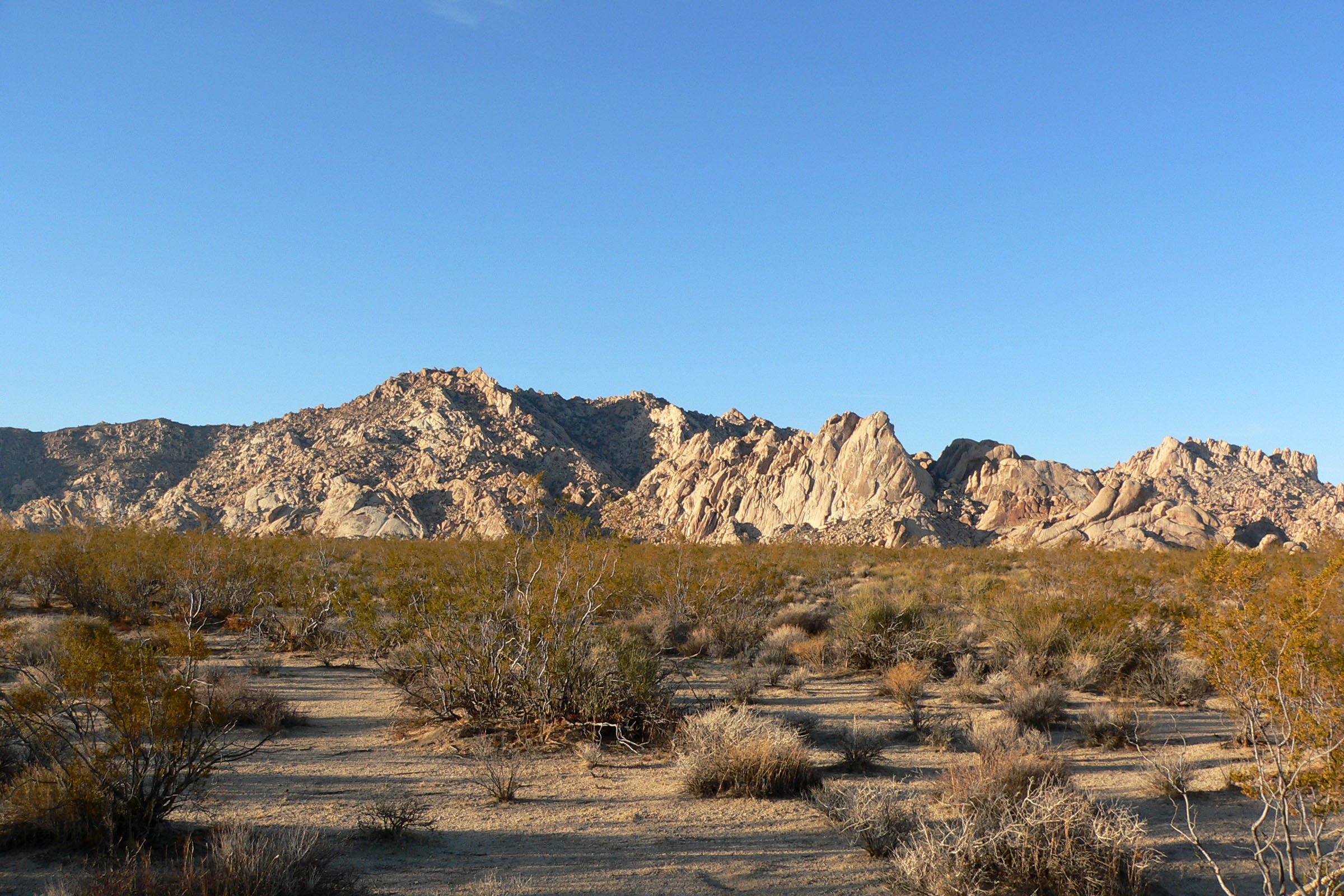 Granite Mountains from Kelbaker Road, Mojave National Preserve, southern California